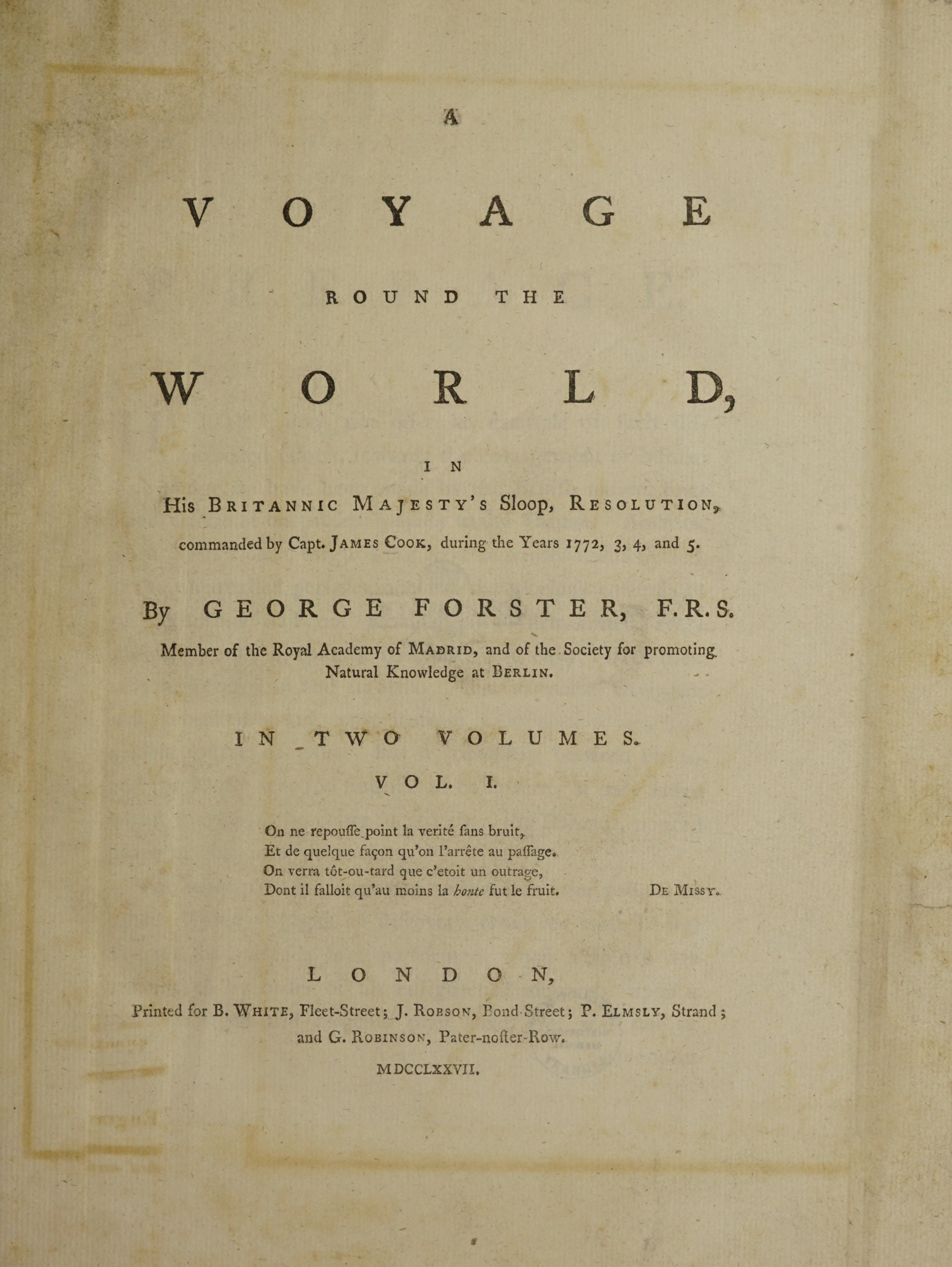 Title page of Georg Forster's book A voyage round the world""